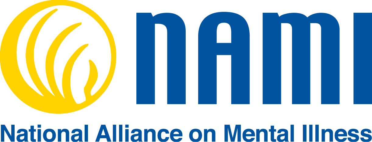 Official logo of the National Alliance on Mental Illness.